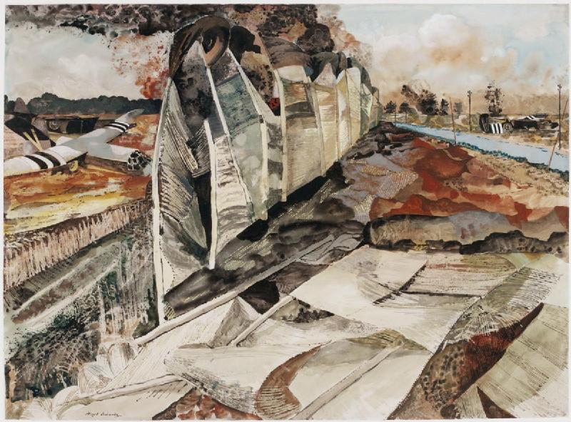 France- the Beach Head, 1944; the road between St Aubin and Benouville, the main supply route to the troops on the east side of the River Orne. It was under constant shell fire from the German batteries around Caen. image: a landscape showing a road under artillery bombardment. A line of protective camouflaged screens lie in the centre of the image, the screens in the foreground having been damaged. Two damaged Horsa gliders lie on the ground, one on the right next to the road, and the other on the left, its wings still intact. Plumes of black smoke, the result of the bombardment, emerge from behind the line of screens.